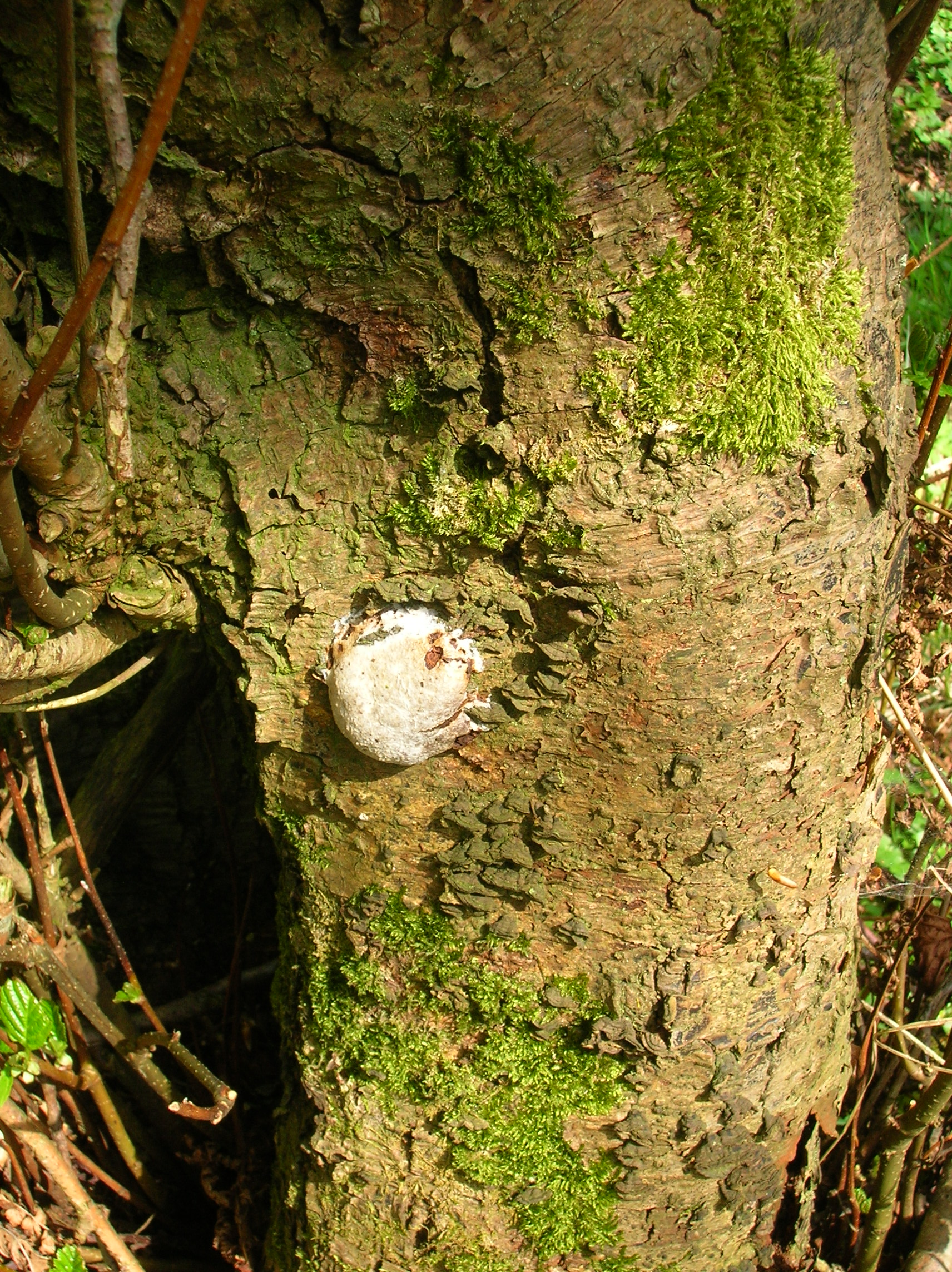 Enteridium lycoperdon, (Bull.) M.L. Farr, 1976 (Reticularia lycoperdon) with later stage brown contents on an alder. Spier's Old School Grounds, Beith, Ayrshire, Scotland.